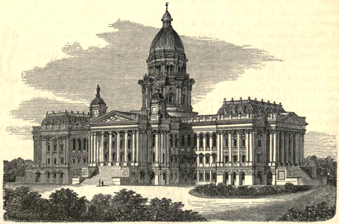 Drawing/wood engraving of the state capitol of Illinois at Springfield.